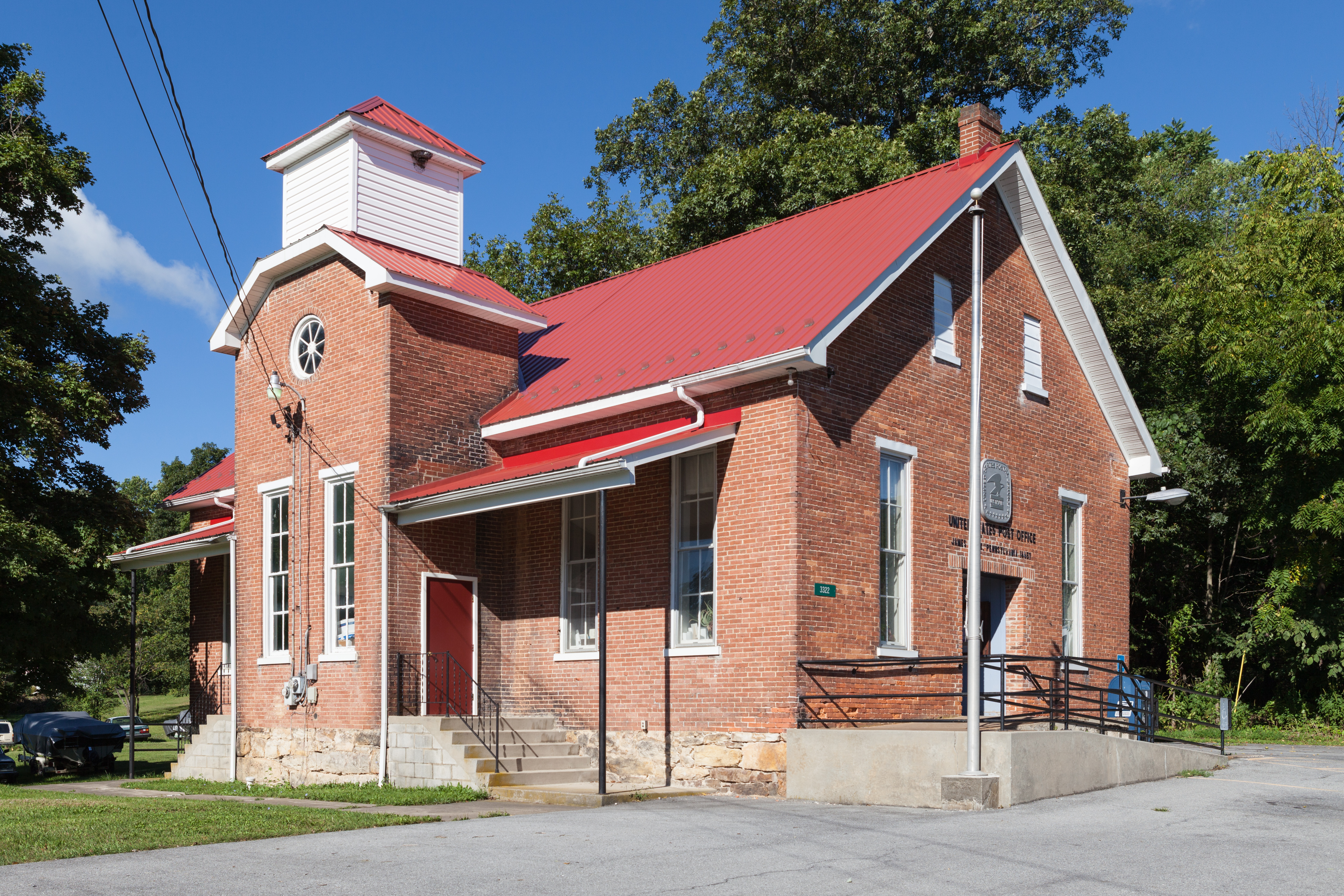 In the Marklesburg Historic District, the former James Creek School, now a post office